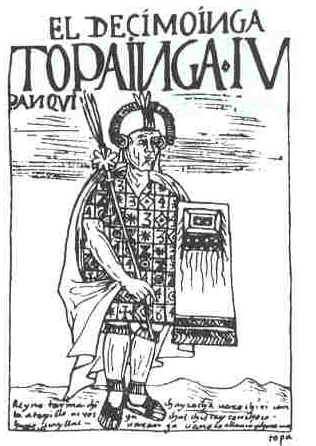 Illustration from the book El primer nueva corónica y buen gobierno